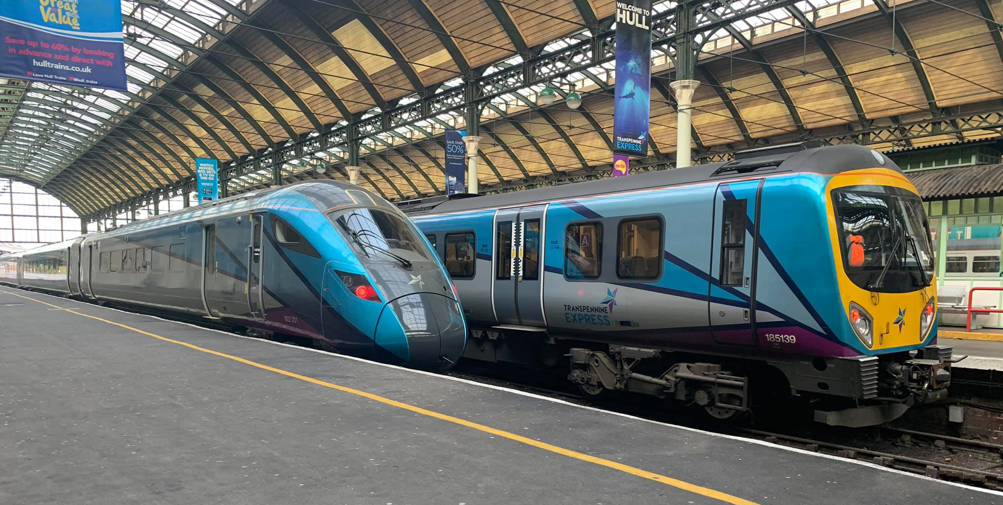 Old and new, 802201 sits on a break at Hull Platform 2 before doing a test run from Hull to London Kings Cross, specifically calling at Howden, my guess this run was for HT testing.